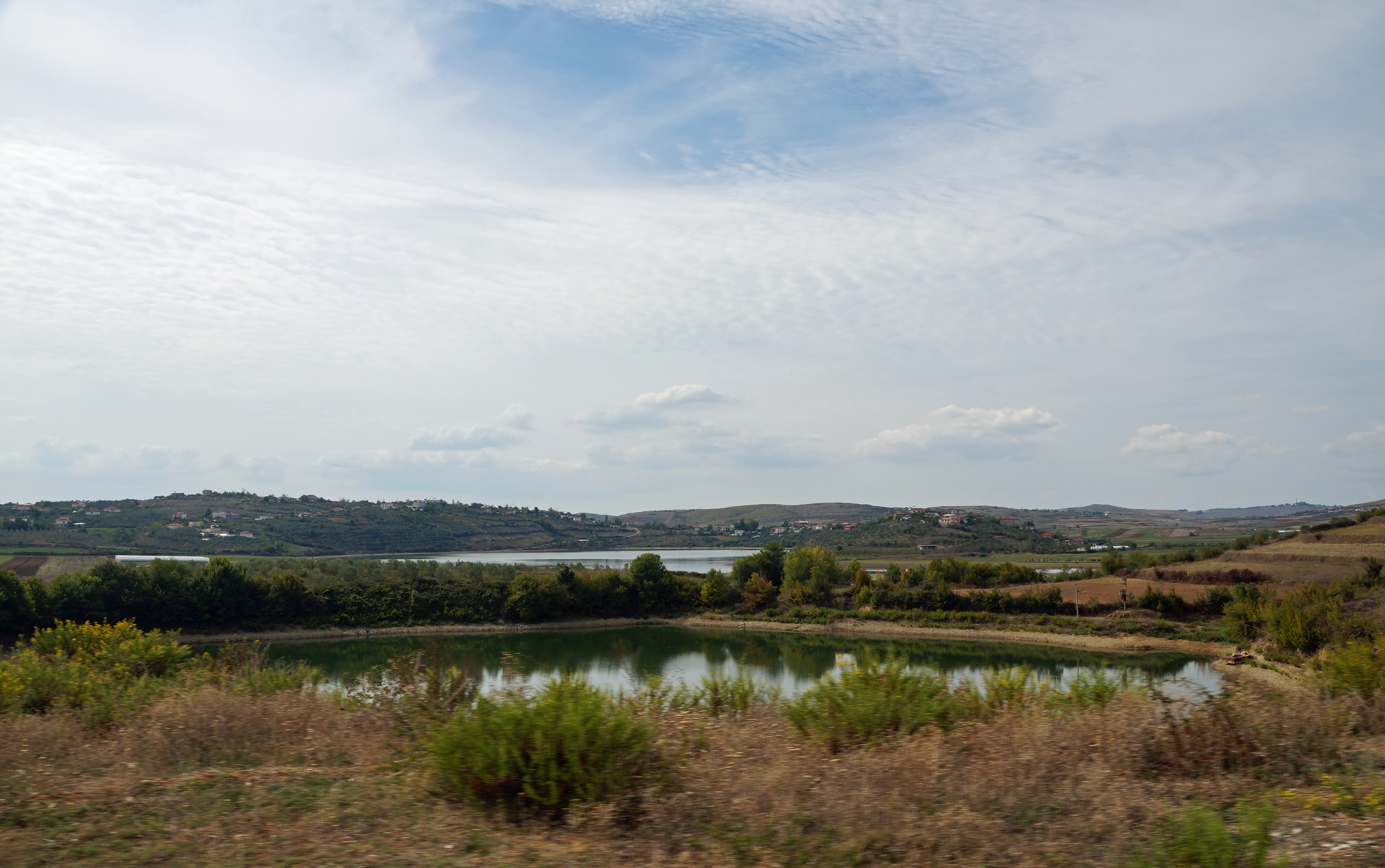 Lakes of Seferan, Dumreja, Central Albania